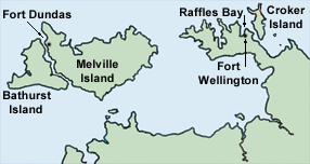 Map showing Melville and Croker Islands to illustrate James Stirling biography.